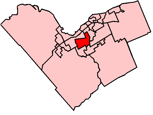 Map Showing Knoxdale-Merivale